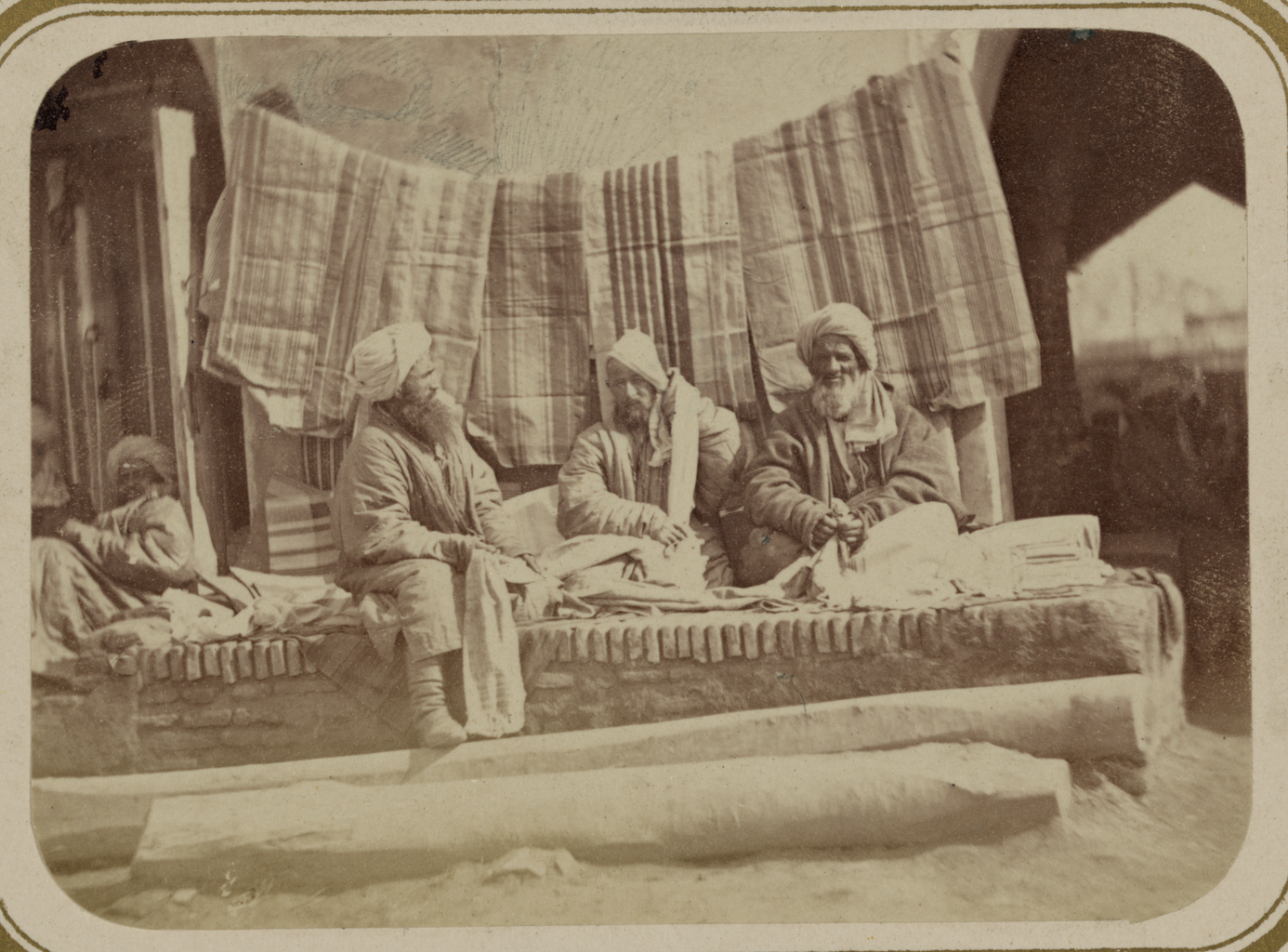 This photograph is from the ethnographical part of Turkestan Album, a comprehensive visual survey of Central Asia undertaken after imperial Russia assumed control of the region in the 1860s. Commissioned by General Konstantin Petrovich von Kaufman (1818–82), the first governor-general of Russian Turkestan, the album is in four parts spanning six volumes: “Archaeological Part” (two volumes); “Ethnographic Part” (two volumes); “Trades Part” (one volume); and “Historical Part” (one volume). The principal compiler was Russian Orientalist Aleksandr L. Kun, who was assisted by Nikolai V. Bogaevskii. The album contains some 1,200 photographs, along with architectural plans, watercolor drawings, and maps. The “Ethnographic Part” includes 491 individual photographs on 163 plates. The photographs show individuals representing the different peoples of the region (Plates 1–33); daily life and rituals (Plates 34–91); and views of villages and cities, street vendors, and commercial activities (Plates 92–163). Ethnographic photographs; Group portraits; Headgear; Merchants; Photographic surveys; Portrait photographs; Street vendors; Turbans; Turkic peoples